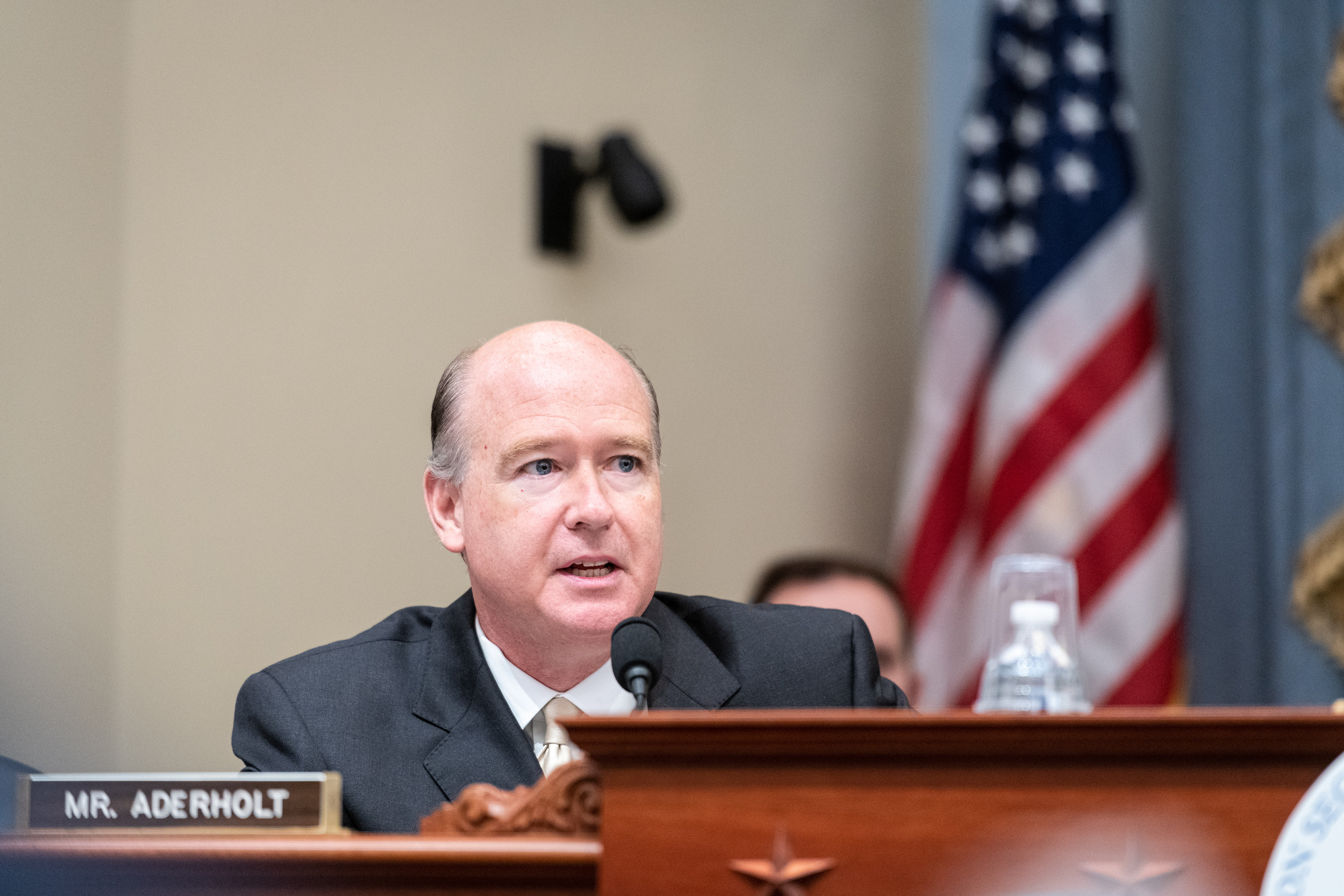 Member, Representative Robert Aderhold US Helsinki Commission